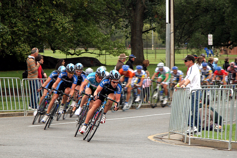 2007 Tour Down Under